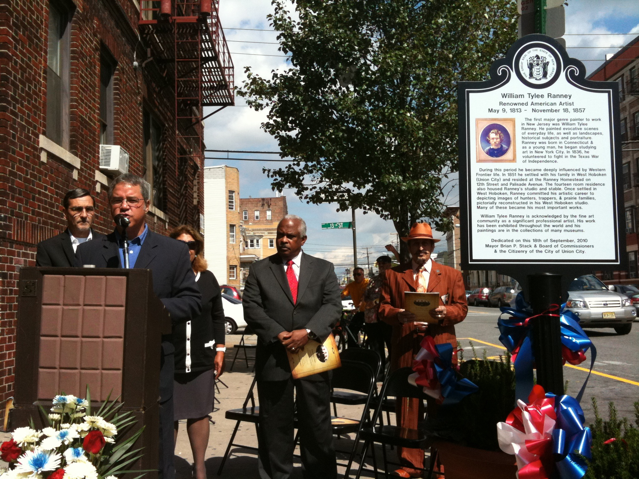 Dedication ceremony in Union City, New Jersey for a historical marker honoring painter William Ranney, who lived in Union City (when it was formerly West Hoboken), September 18, 2010. The marker, which is the fourth one Union City has dedicated for one of its notable residents, stands outside the Union Court Apartments at 1215 Palisade Avenue, where Ranney’s estate once stood. Speaking at the podium is Union City Commissioner of Public Affairs Lucio P. Fernandez. Photo by Luigi Novi. This photo may be used, modified and published for any purpose, only if the photographer is visibly credited in each instance in which it is used. (See licensing information below.) For more information on my photos, you can contact me here.